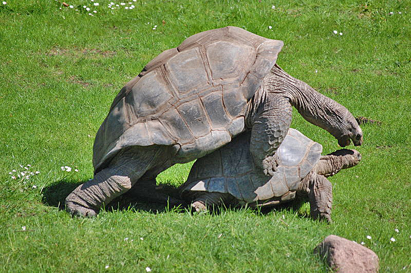 A male Galápagos tortoise mounting a female for mating